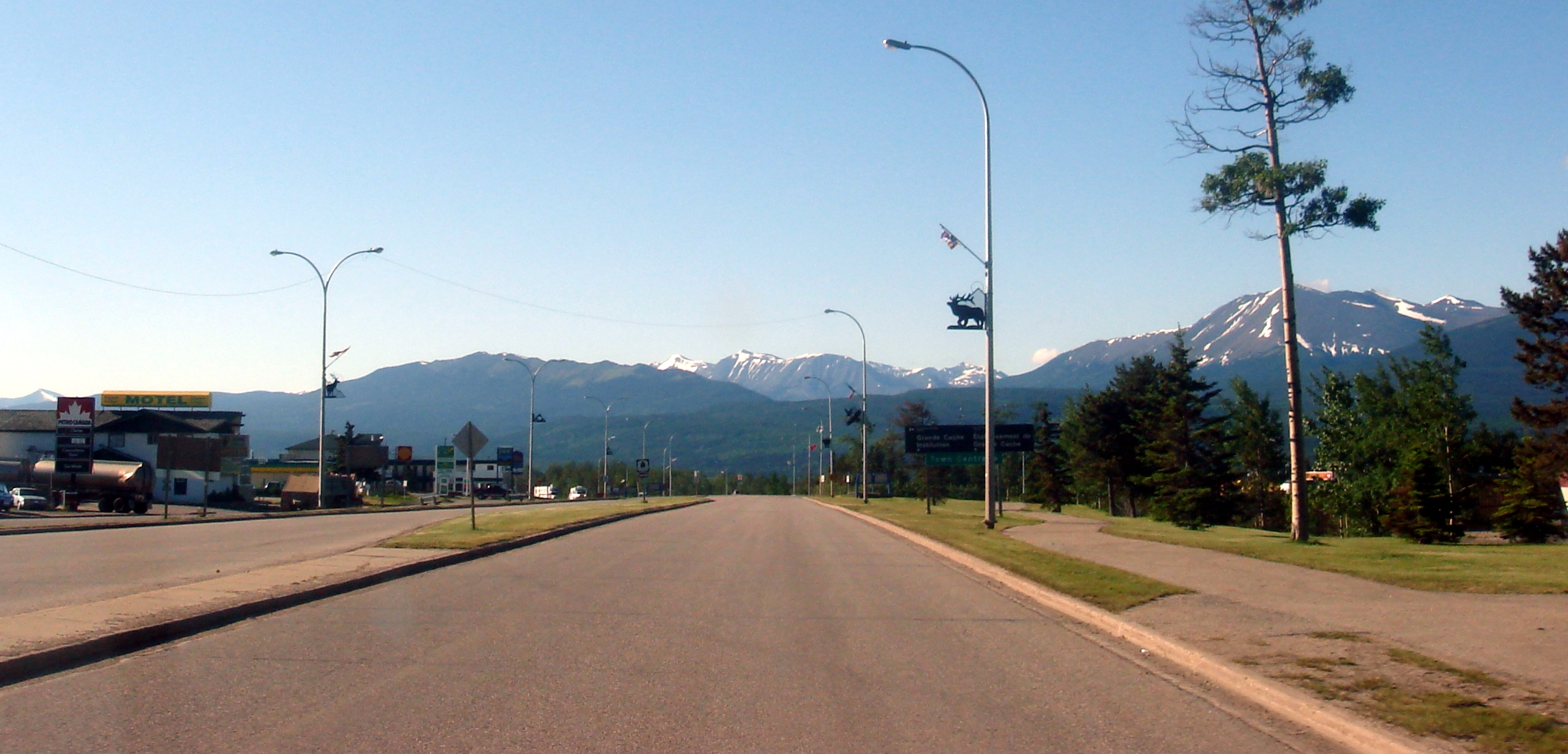 Highway 40 passing through Grande Cache, Alberta, Canada